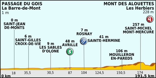 Profil of the 1st stage of the Tour de France 2011